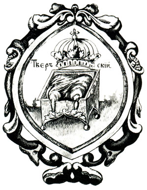 Coat of Arms of Tver